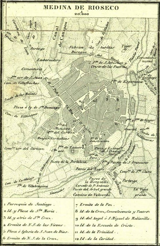 Map of Medina de Rioseco assembled of several pieces of the 1852 general map of the province of Valladolid by Francisco Coello